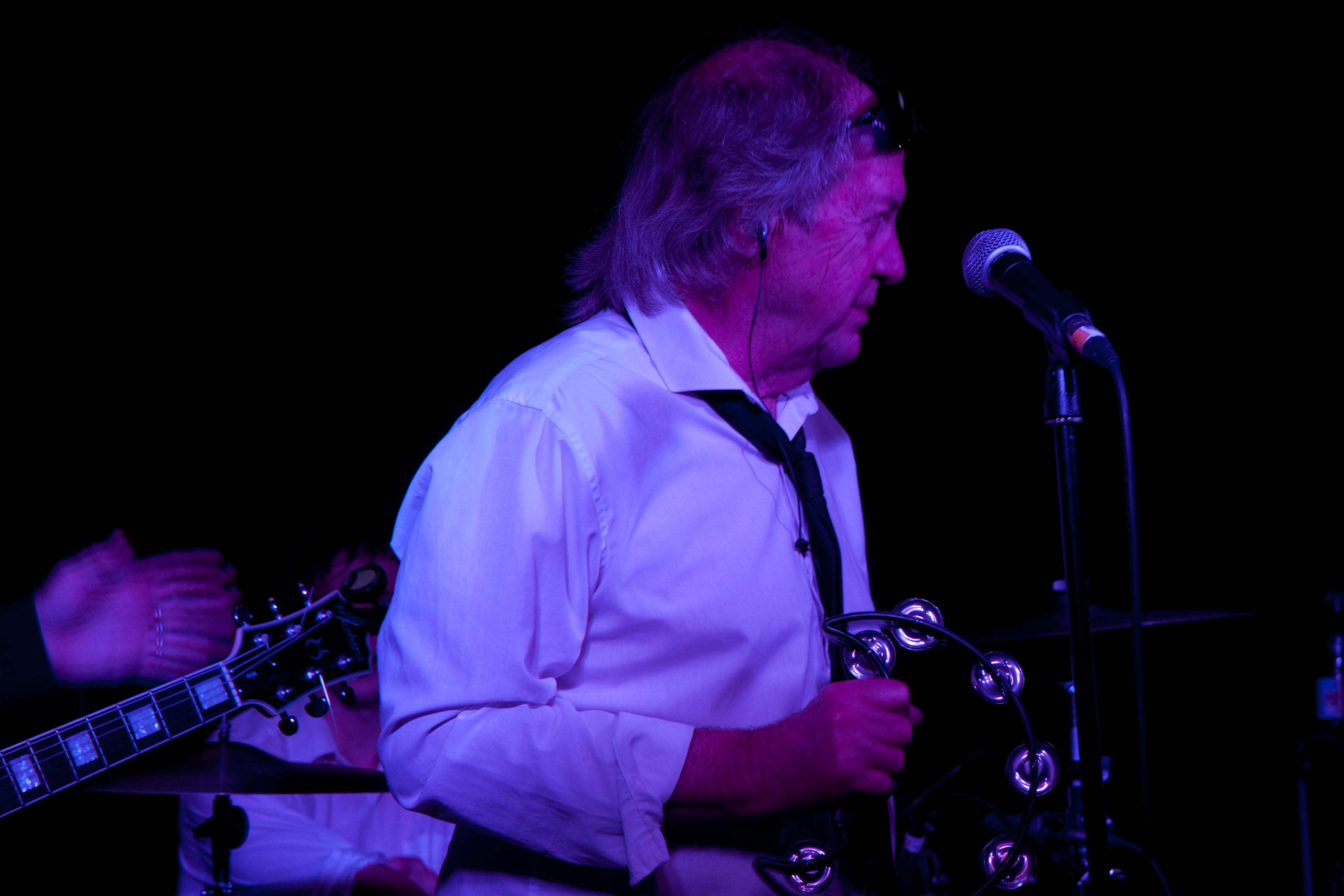 Phil May - Pretty Things do Saltburn 5 The Pretty Things live at Spa Hotel, Saltburn-by-the-Sea, UK, on 27 September 2013.